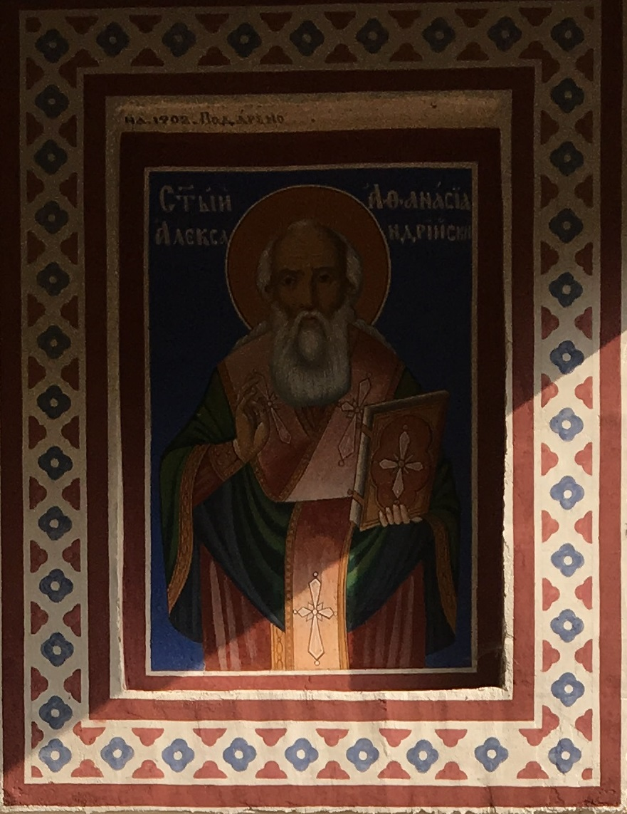 Wikiexpedition to Kopačka